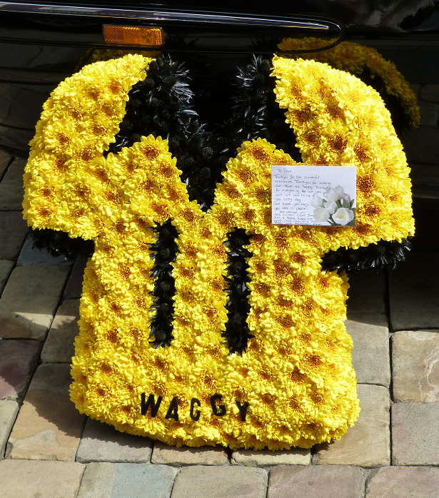 A floral tribute to the late Wolves player, Dave Wagstaffe.